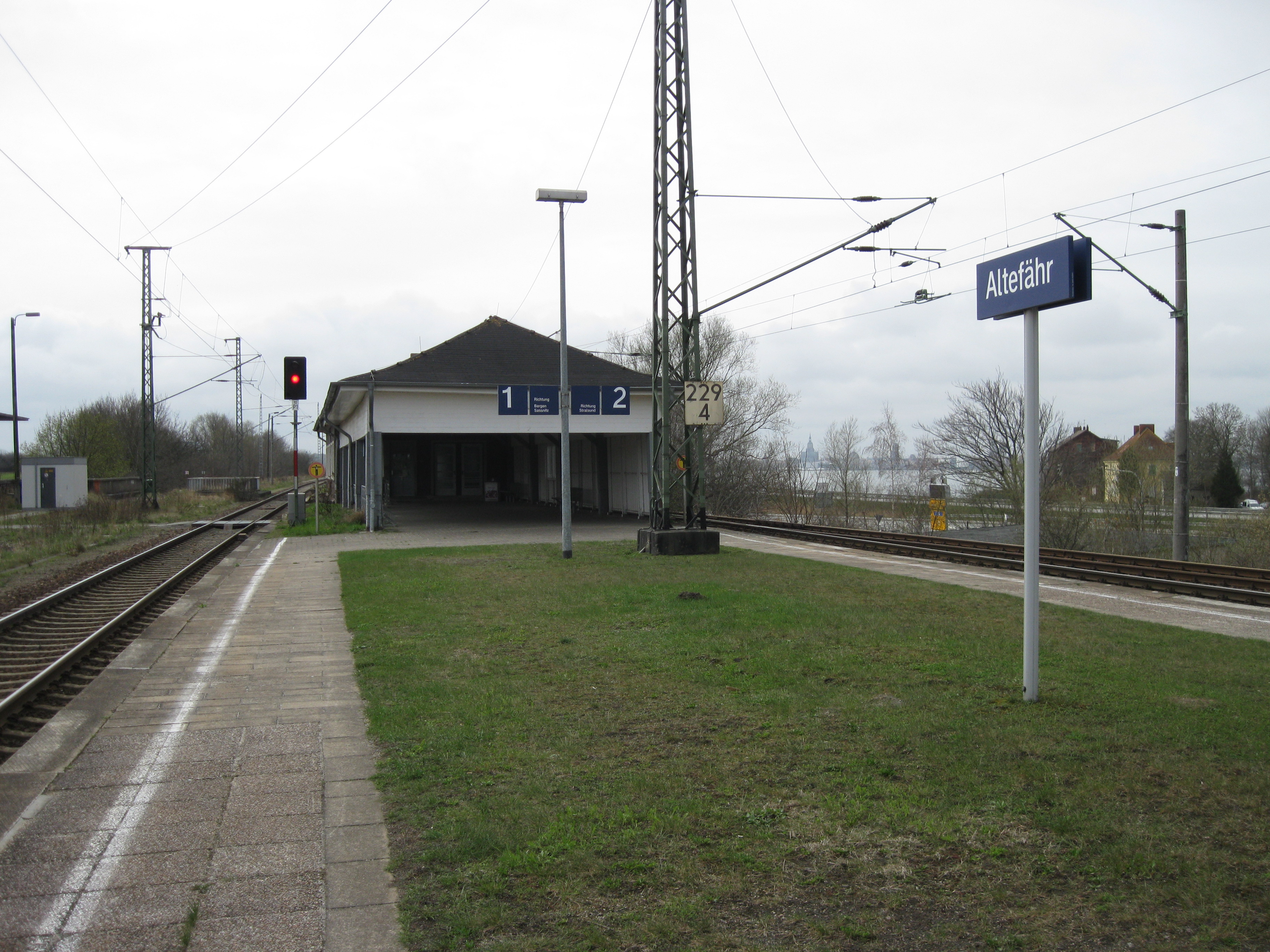 Railway station in Altefähr, Mecklenburg-Vorpommern, Germany